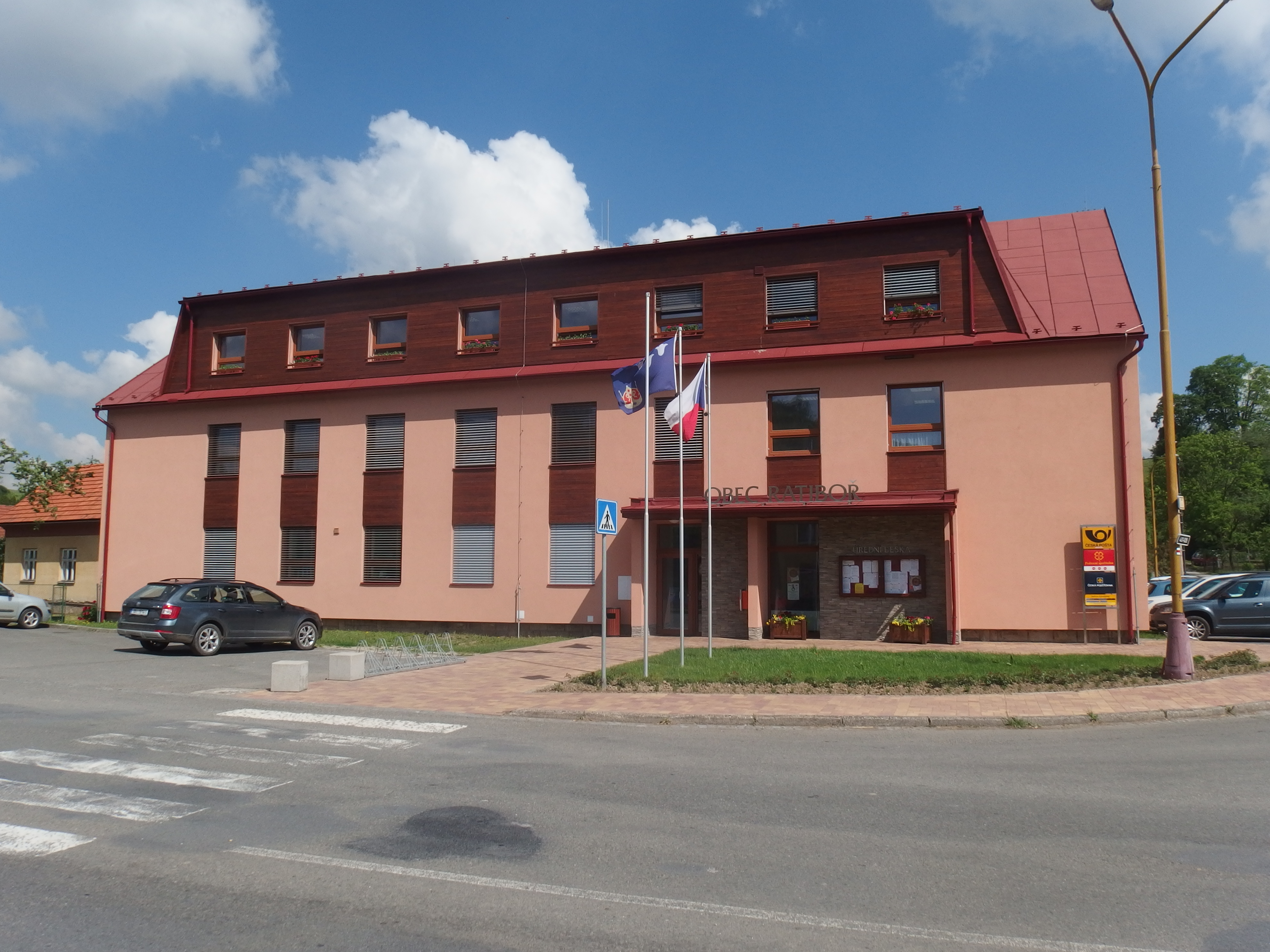 Ratiboř, Vsetín District, Czech Republic.